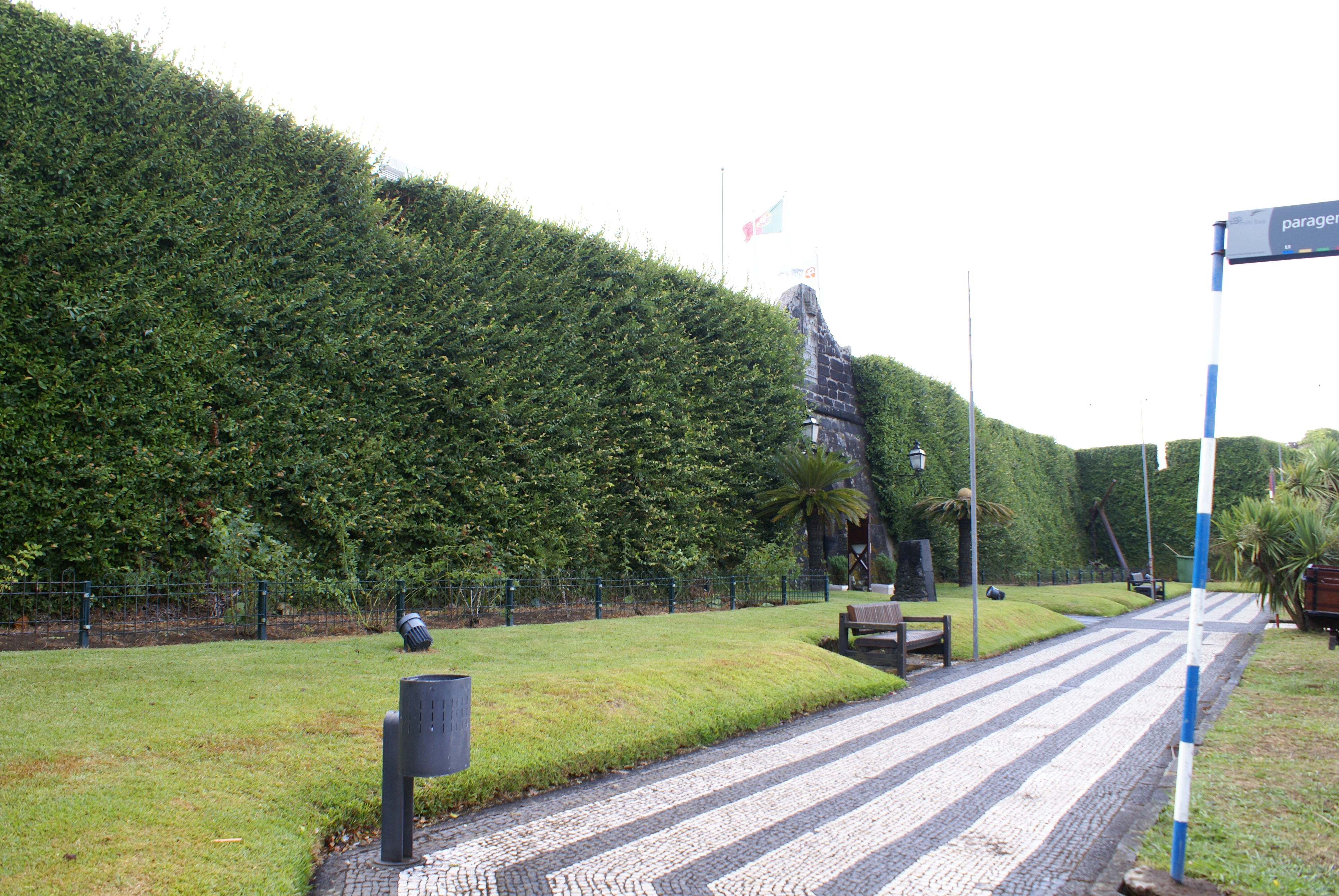 Muralha do Forte de Santa Cruz, cidade da Horta, ilha do Faial, Açores, Portugal